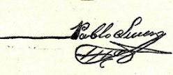 Pablo Lucero, gobernor of San Luis, Argentina, Signature's